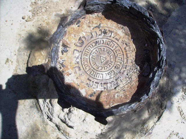 Triangulation Point Hill Holikat